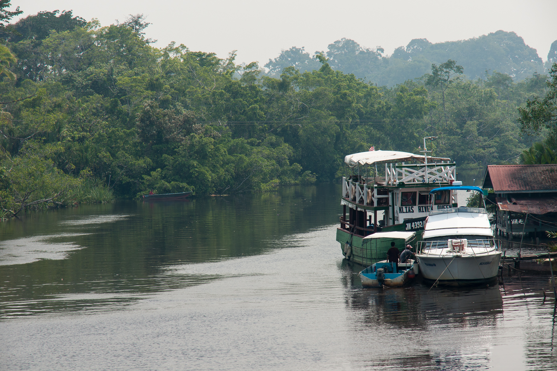 Rivers of Sabah, Malaysia: Sungai Klias